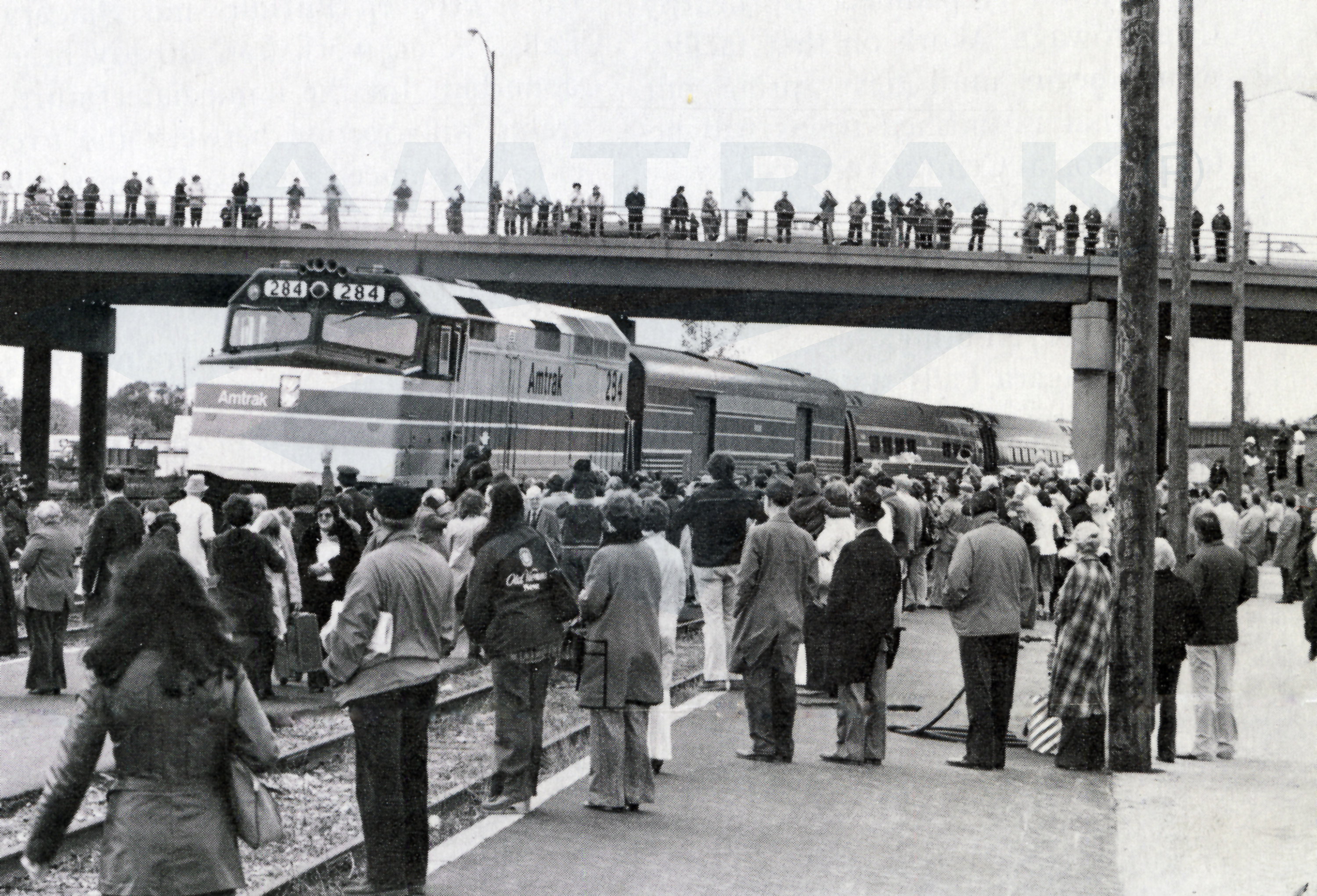 The eastbound Niagara Rainbow arrives at the new Niagara Falls station to a large crowd during dedication ceremonies for the station in October 1978